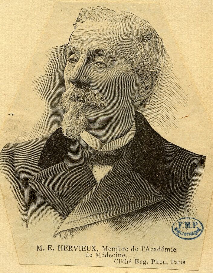 The french physician Jacques François Édouard Hervieux photographed as a member of the french Académie de Médecine.